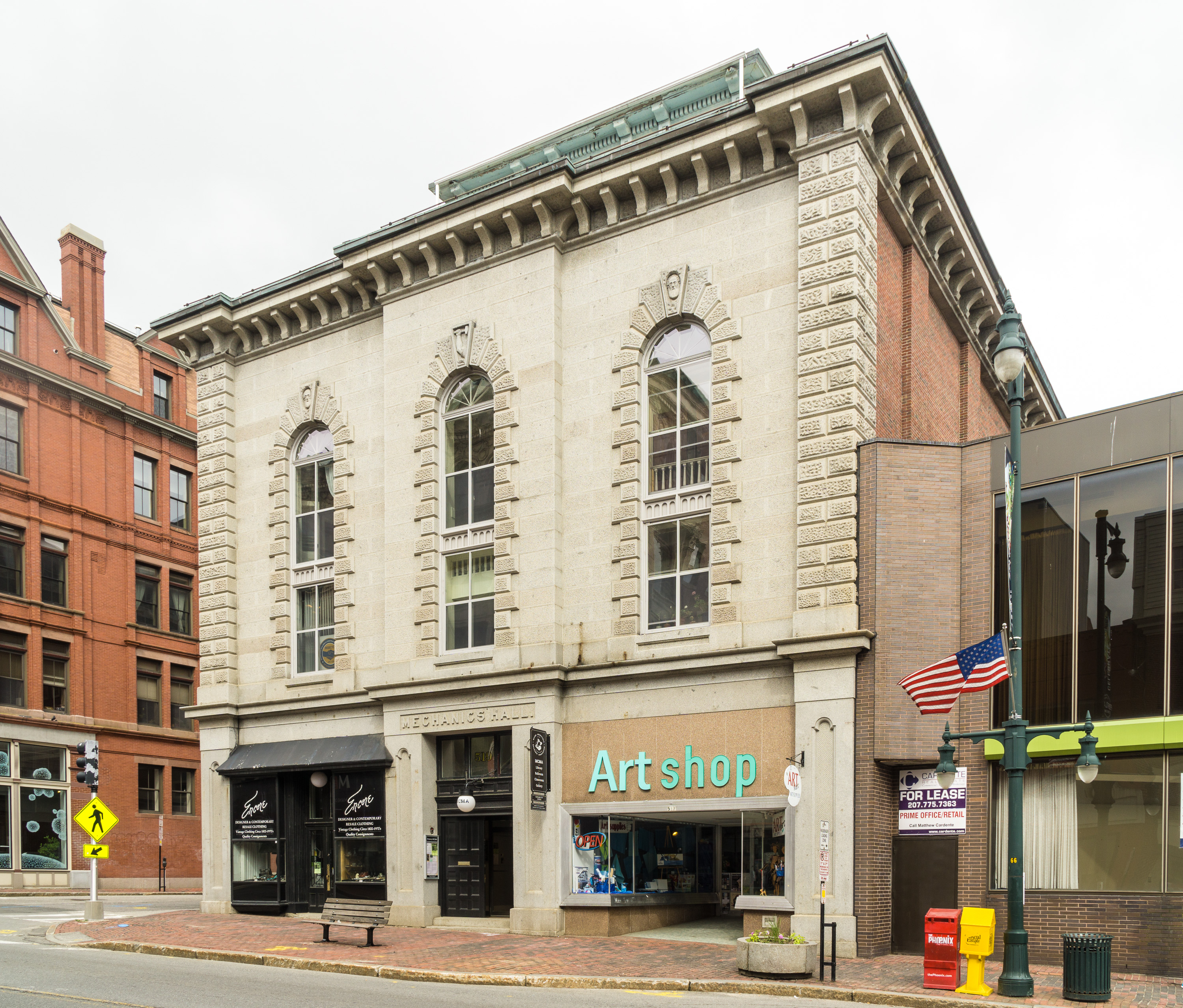 Mechanics Hall is a historic commercial building and meeting hall at 519 Congress Street in downtown Portland, Maine. Built in 1857-59